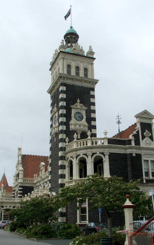 The clocktower, Dunedin Railway Station, New Zealand, photographed by James Dignan (User:Grutness) in February 2008